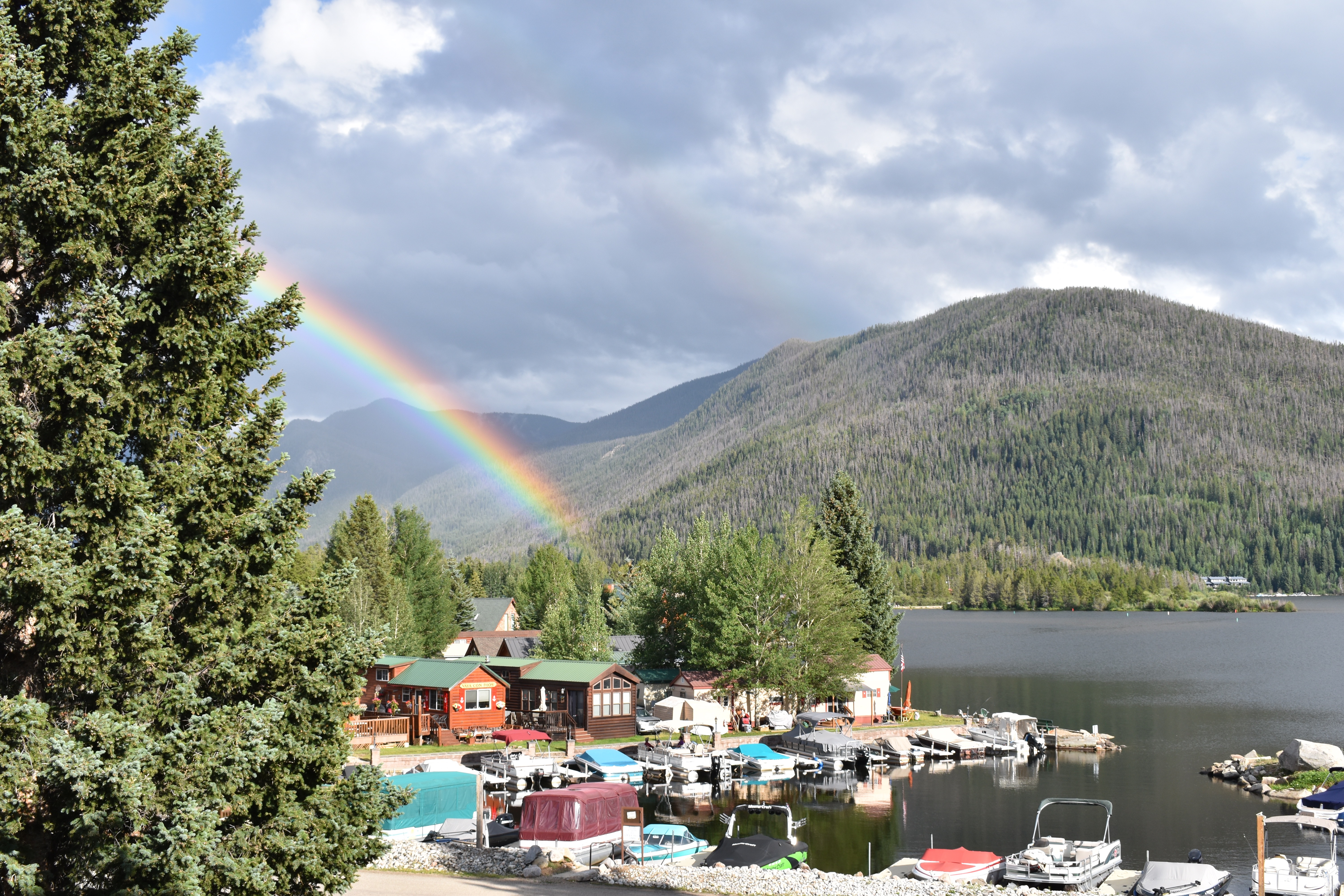 A rainbow from a view overlooking Grand Lake, Colorado.